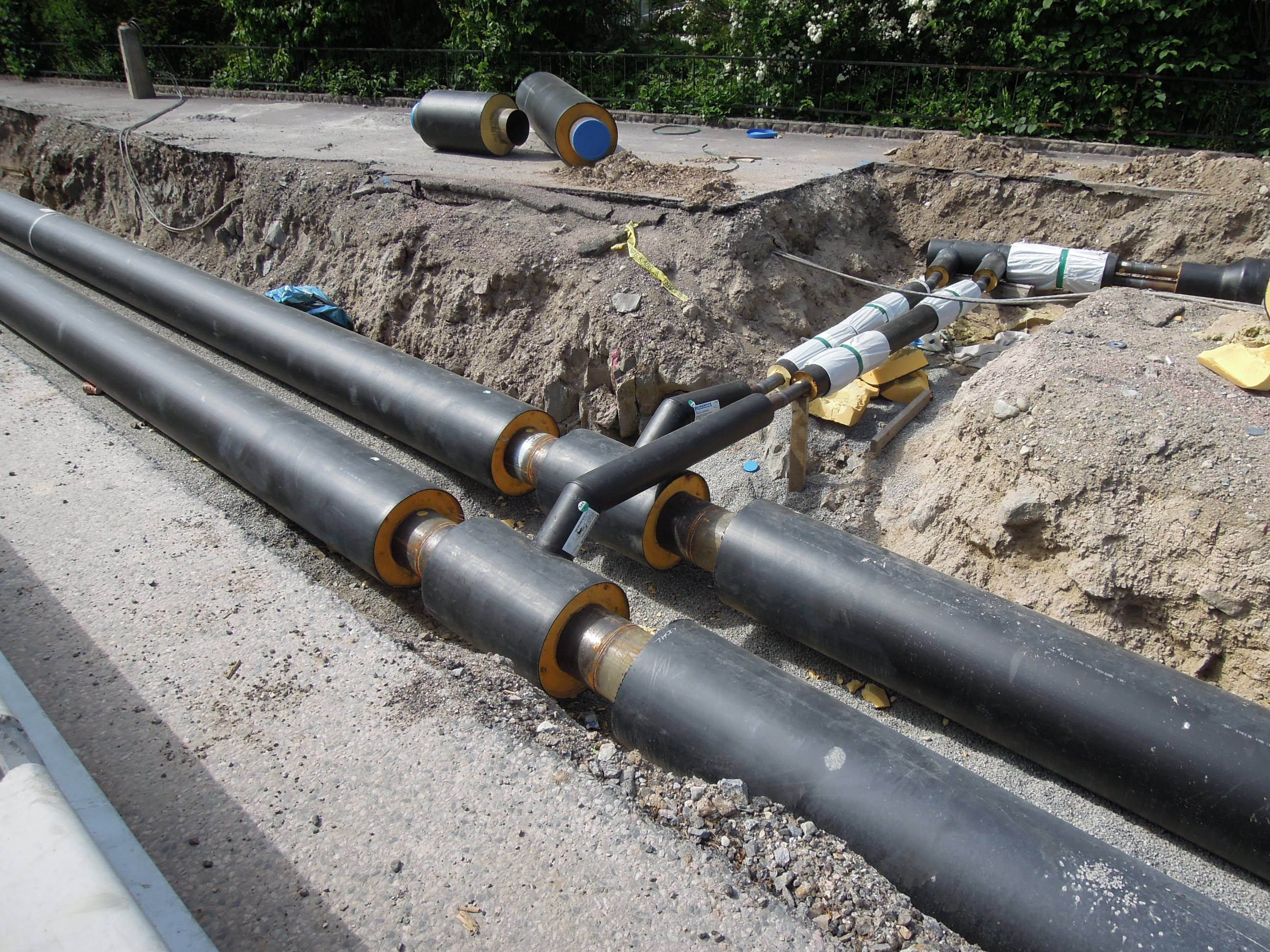 District heating pipelines Västerås, Sweden